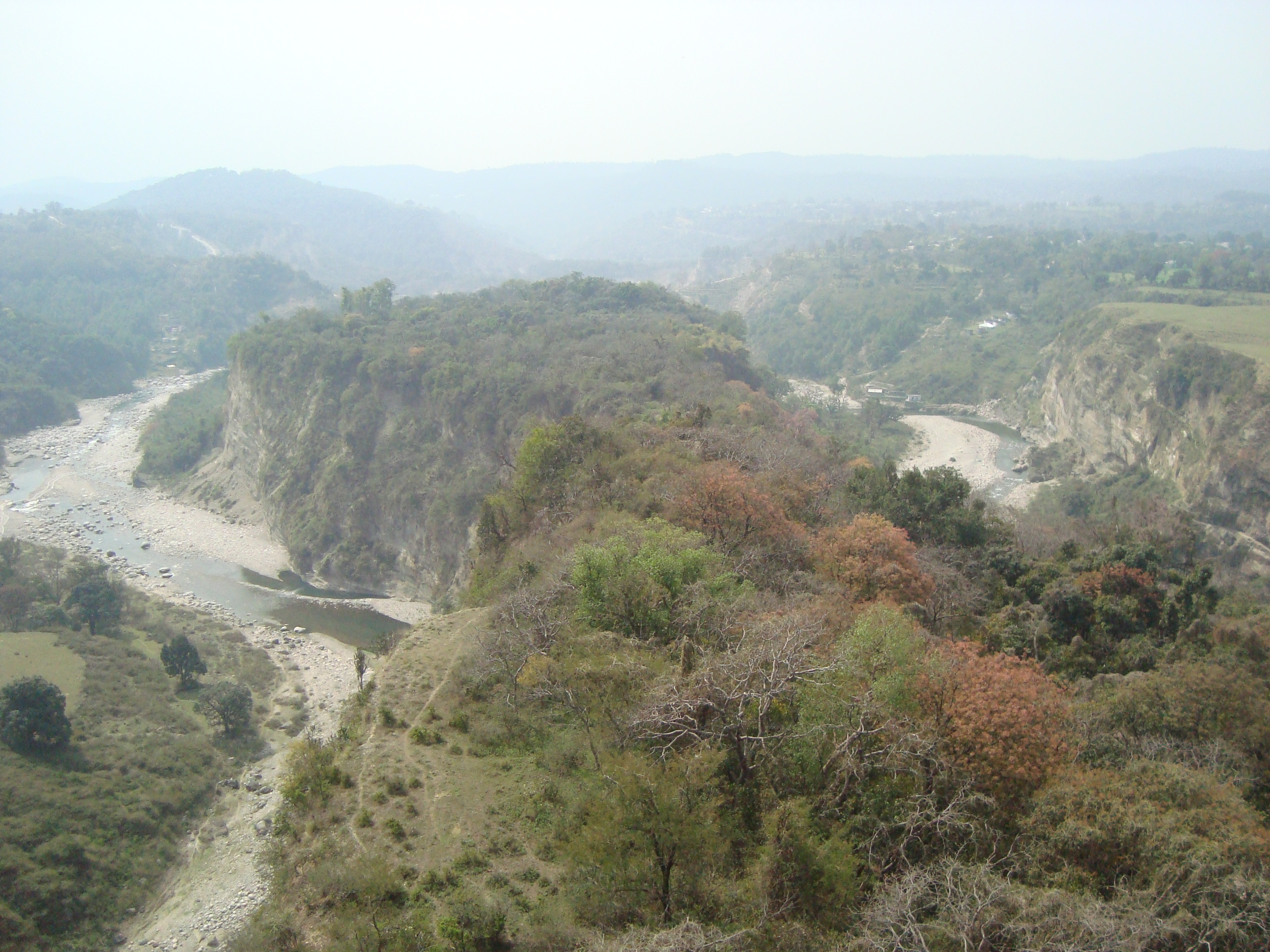 Confluence of Manjhi and Bener rivers near Kangra Fort